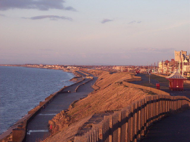 Bispham Seafront with Norbreck Castle in Distance. Clearly shows the multilevel paths along the seafront at Bispham